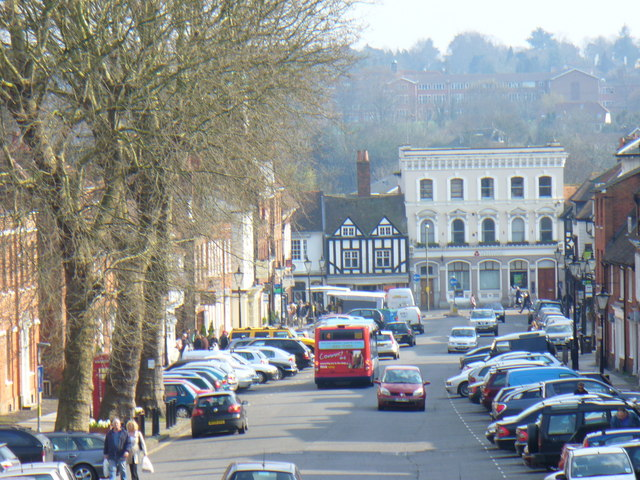 Castle Street Looking south down this beautiful Georgian Street in Farnham. It runs downhill from Farnham Castle to The Borough.